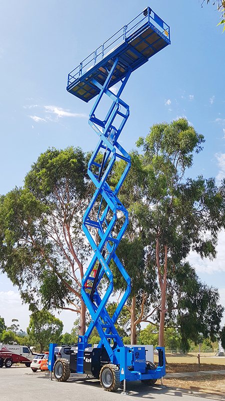 Genie 53ft Rough Terrain Scissor Lift at Duralift Access Hire in Australia